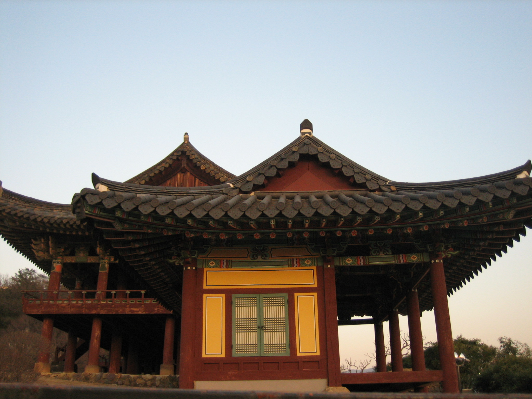 Image taken from the pavillion Yeongnamru in Miryang, Province Gyeoengsangnam-do, South Korea